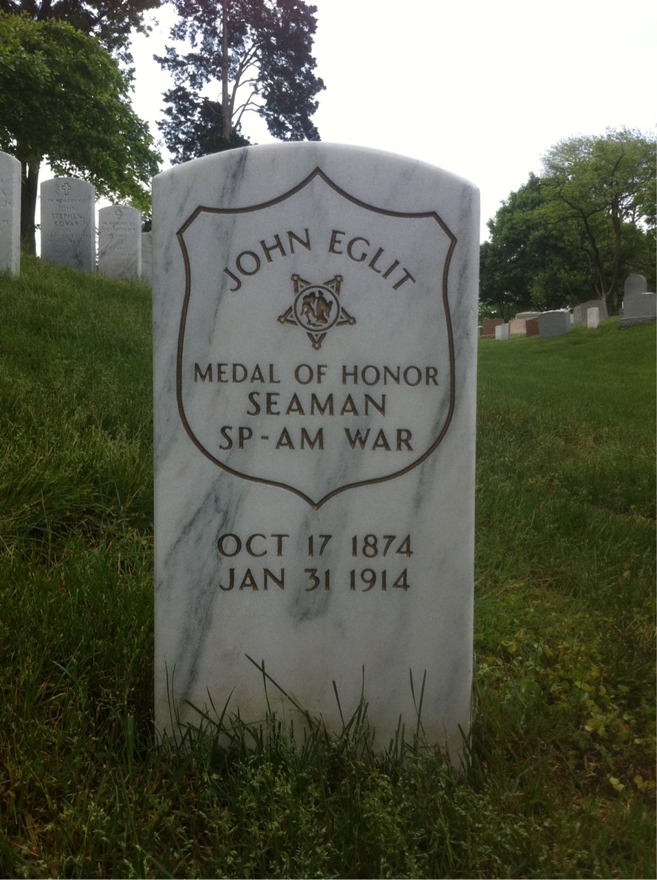 Grave of John Eglit at Arlington National Cemetery